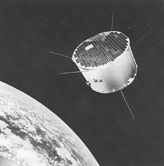 Artist's concept of Aeros in orbit.